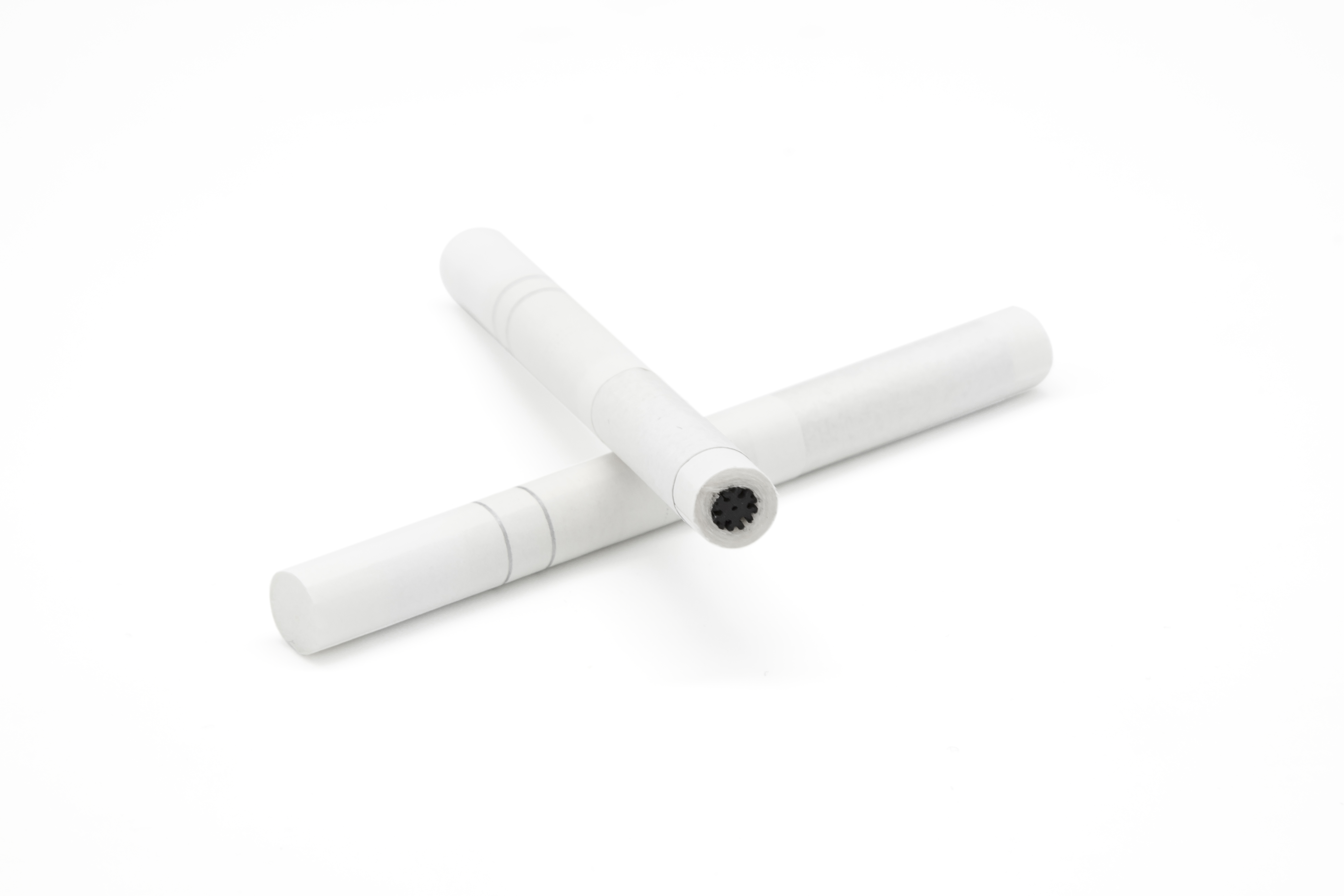 Steam Hot One, a variant of the Eclipse cigarette sold on the Japanese market in the 2000s.